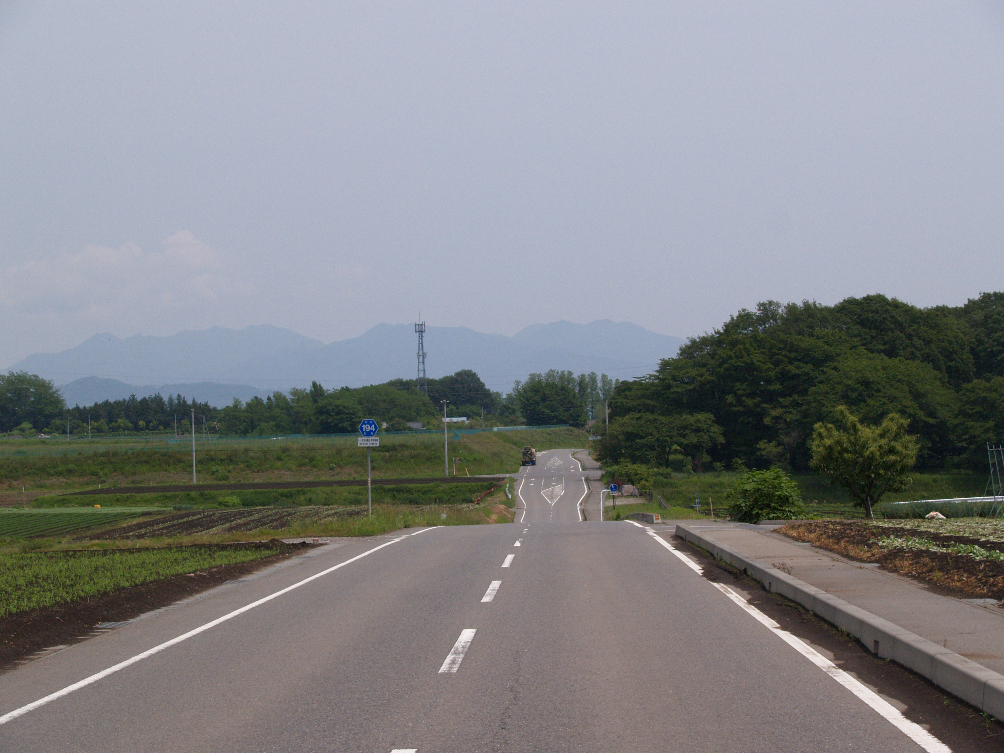 Gumma Prefectural road 194